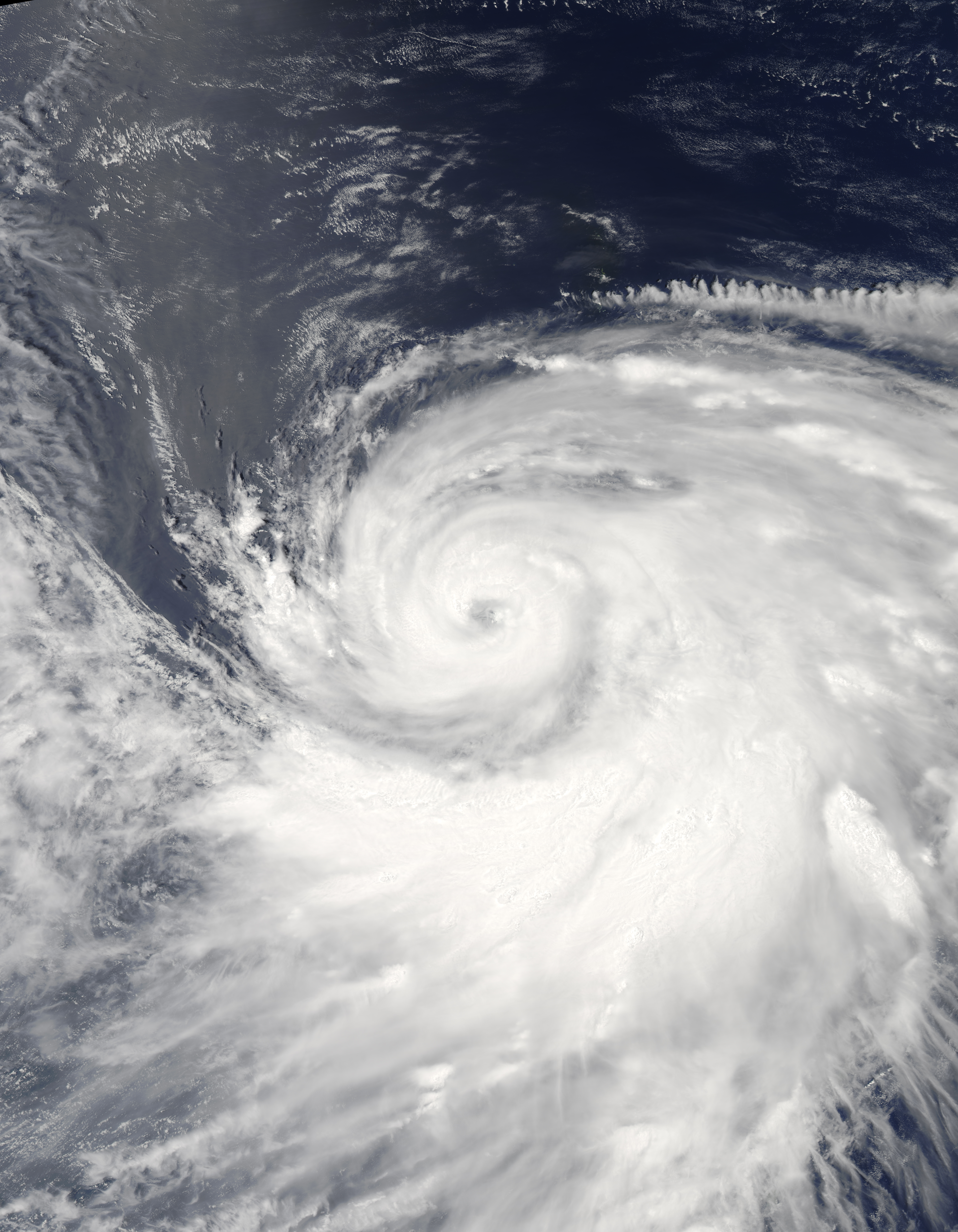 Typhoon Krosa (12W) in the Pacific Ocean